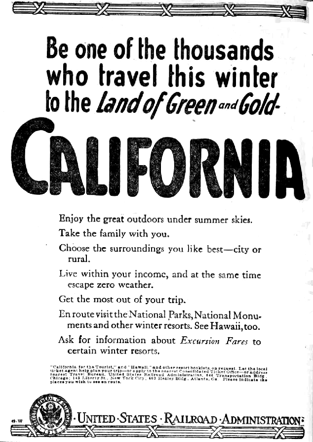 USRA ad promoting vacation travel to California in 1919.